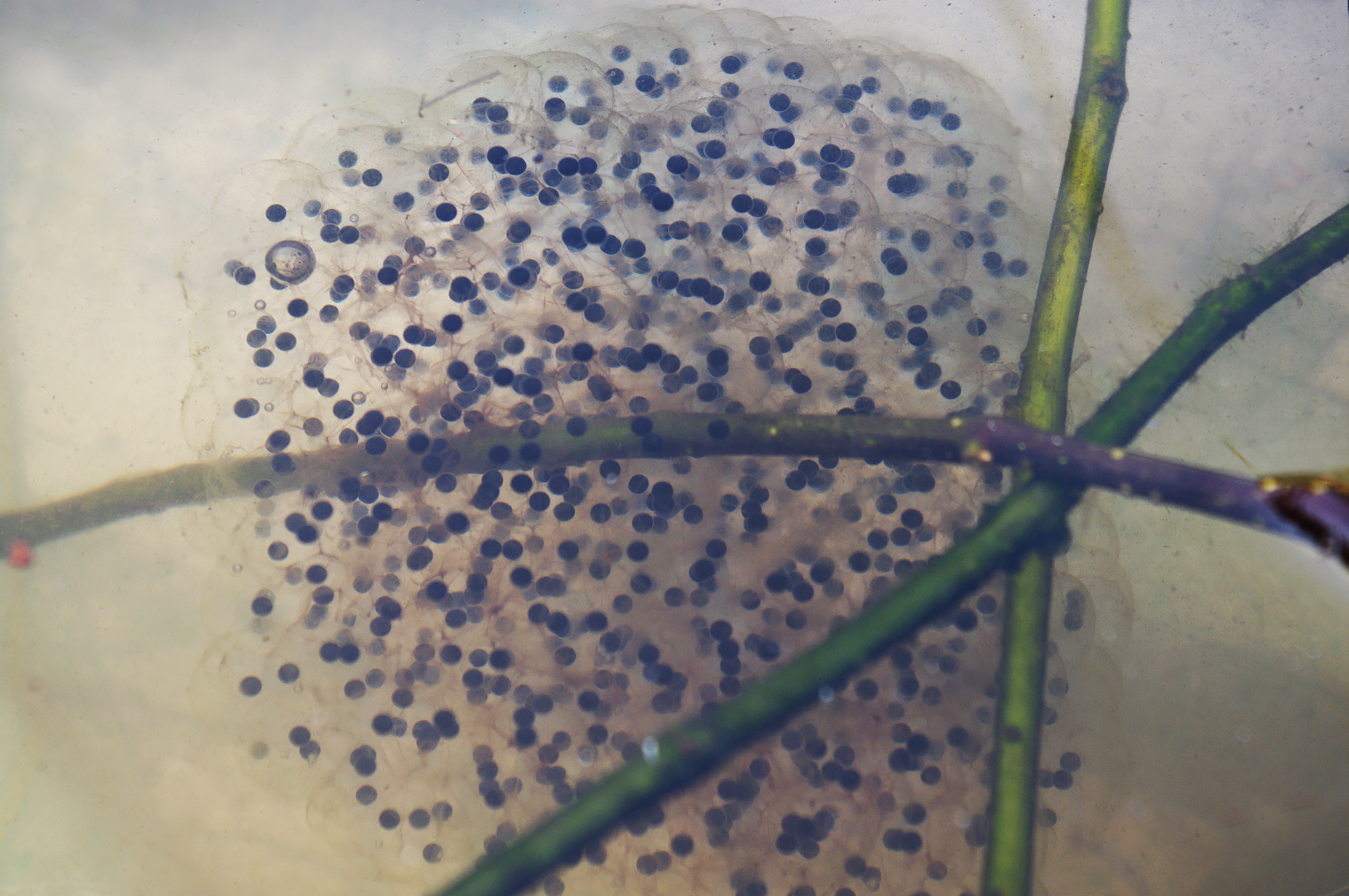 Fresh spawn clump of the Agile Frog (Rana dalmatina), submerged in a pool. The single spawn clump is attached to a thin branch that runs through the bale. This is a typical spawning behaviour of that species. (For better visibility, a piece of paper was pushed under the spawn.) Note: Mid April is a very unusual late date for Rana dalmatina spawning (caused by a long winter); "normal" would be about four weeks earlier in this region.